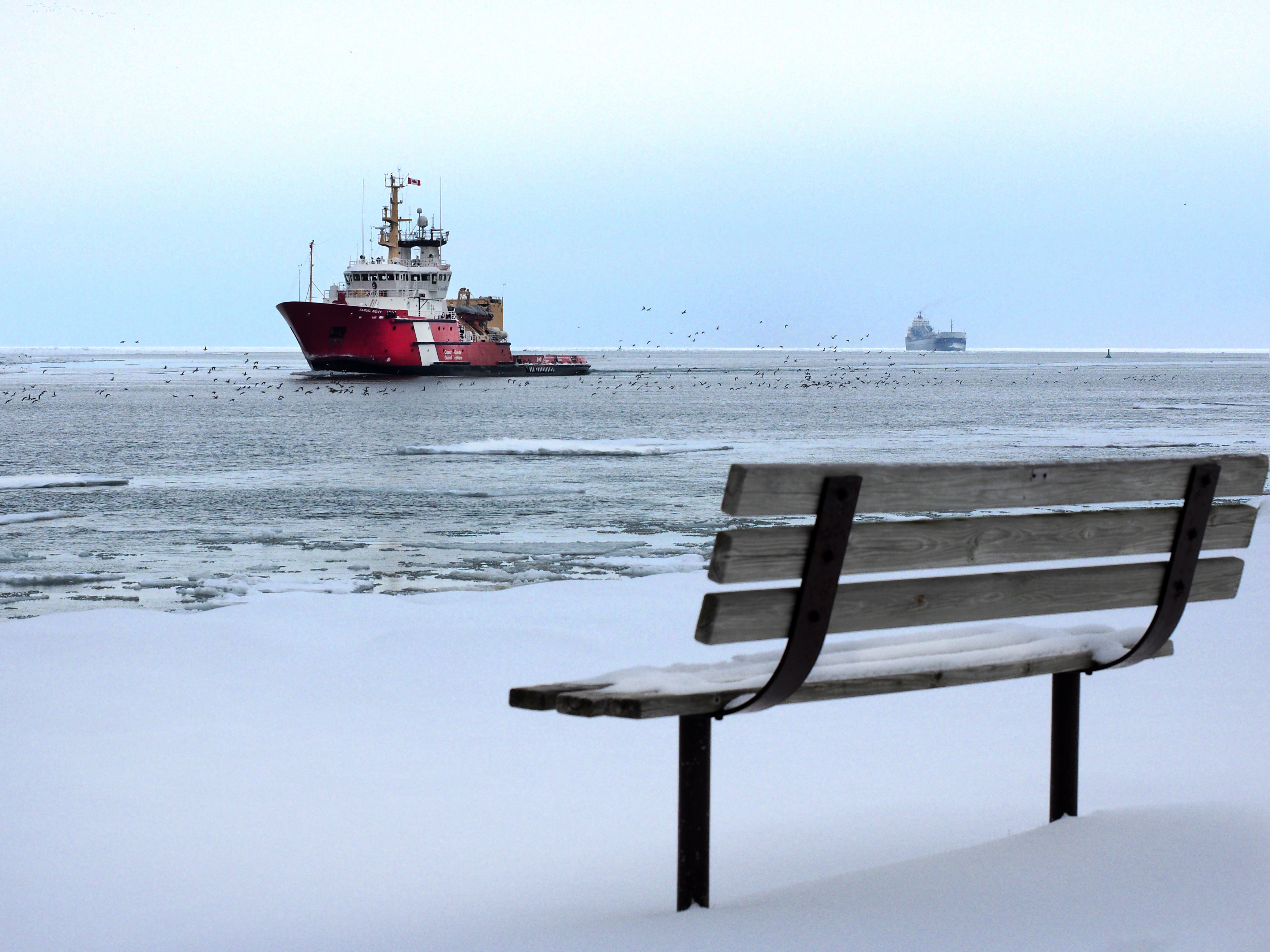 Sarnia, Point Edward, at the Southern tip of the Great Lake Huron, just North of the Blue Water Bridge.